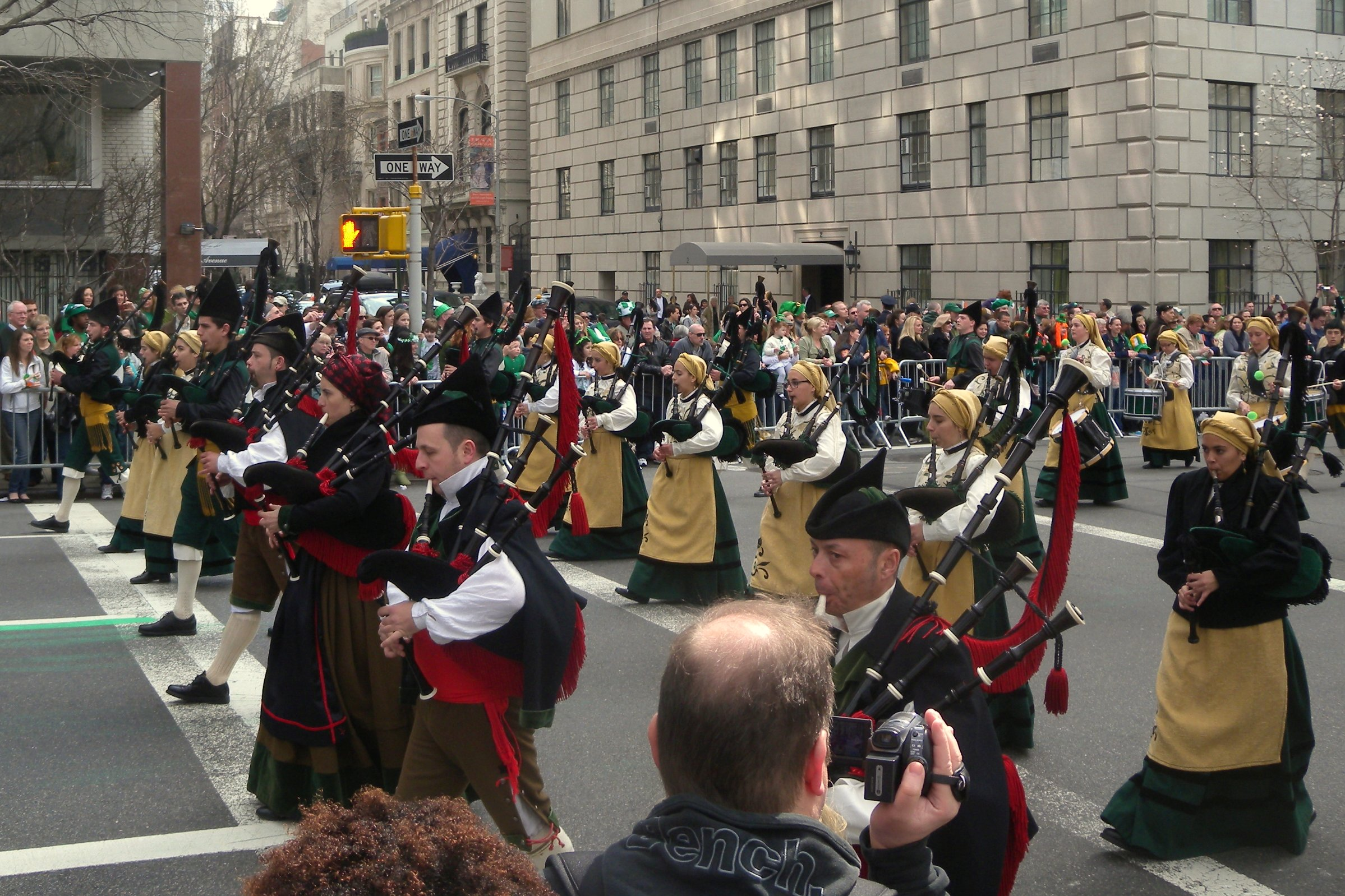 Casa Galicia pipers cross 67th Street.